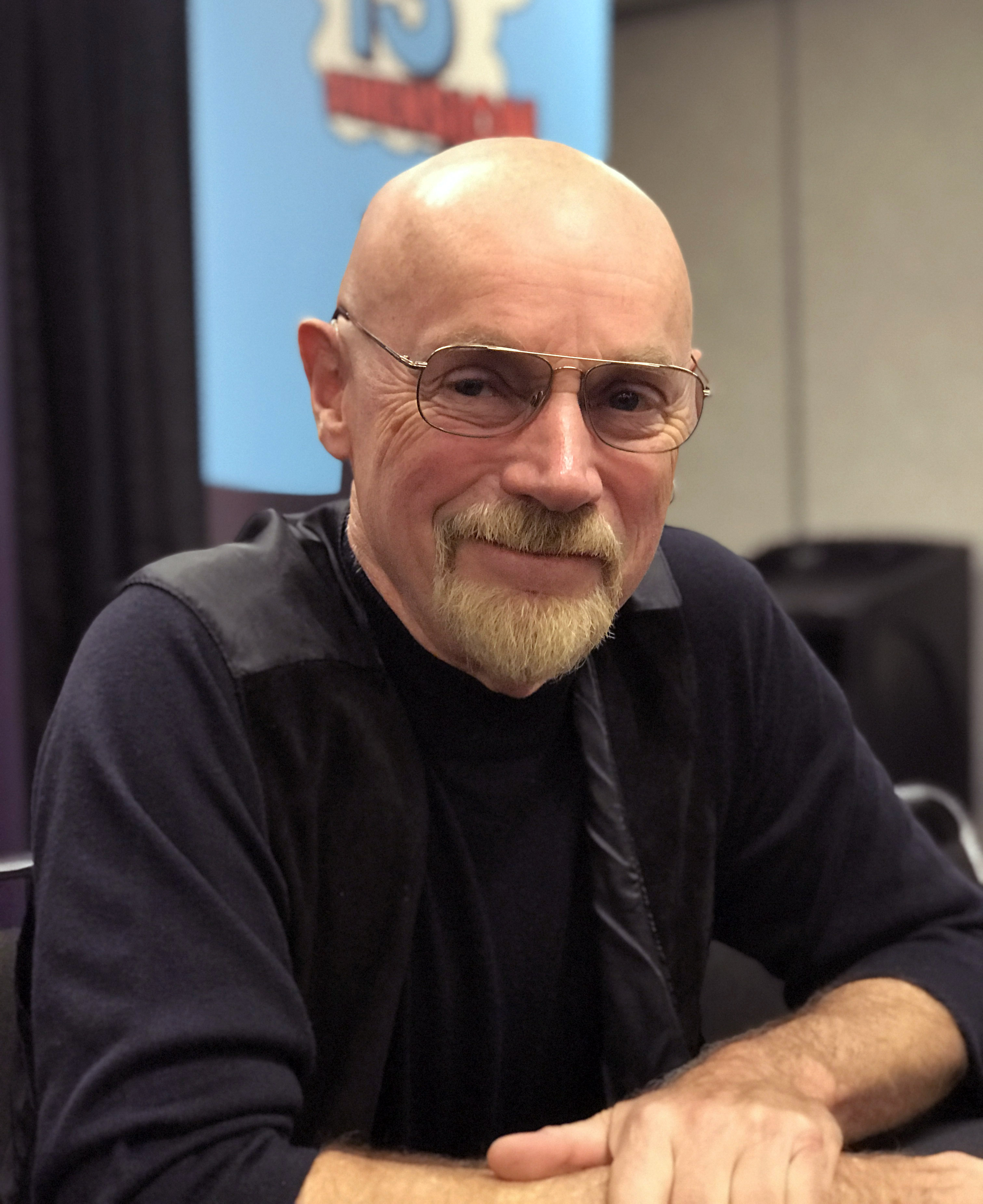 Comic book creator Jim Starlin during a Q&A discussion at the Meadowlands Exposition Center in Secaucus, New Jersey on Sunday, April 29, 2018, Day 3 of the East Coast Comicon. This photo was created by Luigi Novi. It is not in the public domain, and use of this file outside of the licensing terms is a copyright violation.